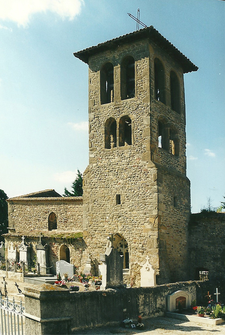 Steeple of the old church surrounded by the cemetery